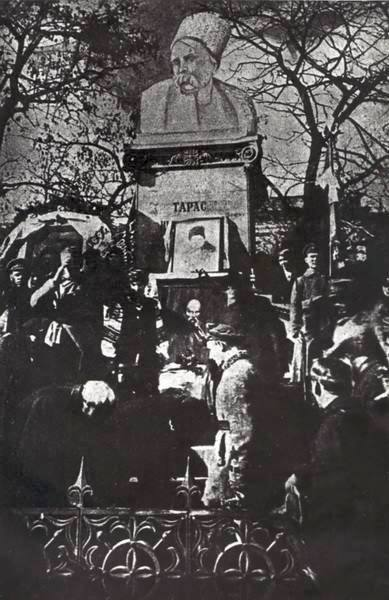 A photo of a temporary monument to Taras Shevchenko in Kyiv, erected in 1919 in Mykhailivska square by the Bolsheviks